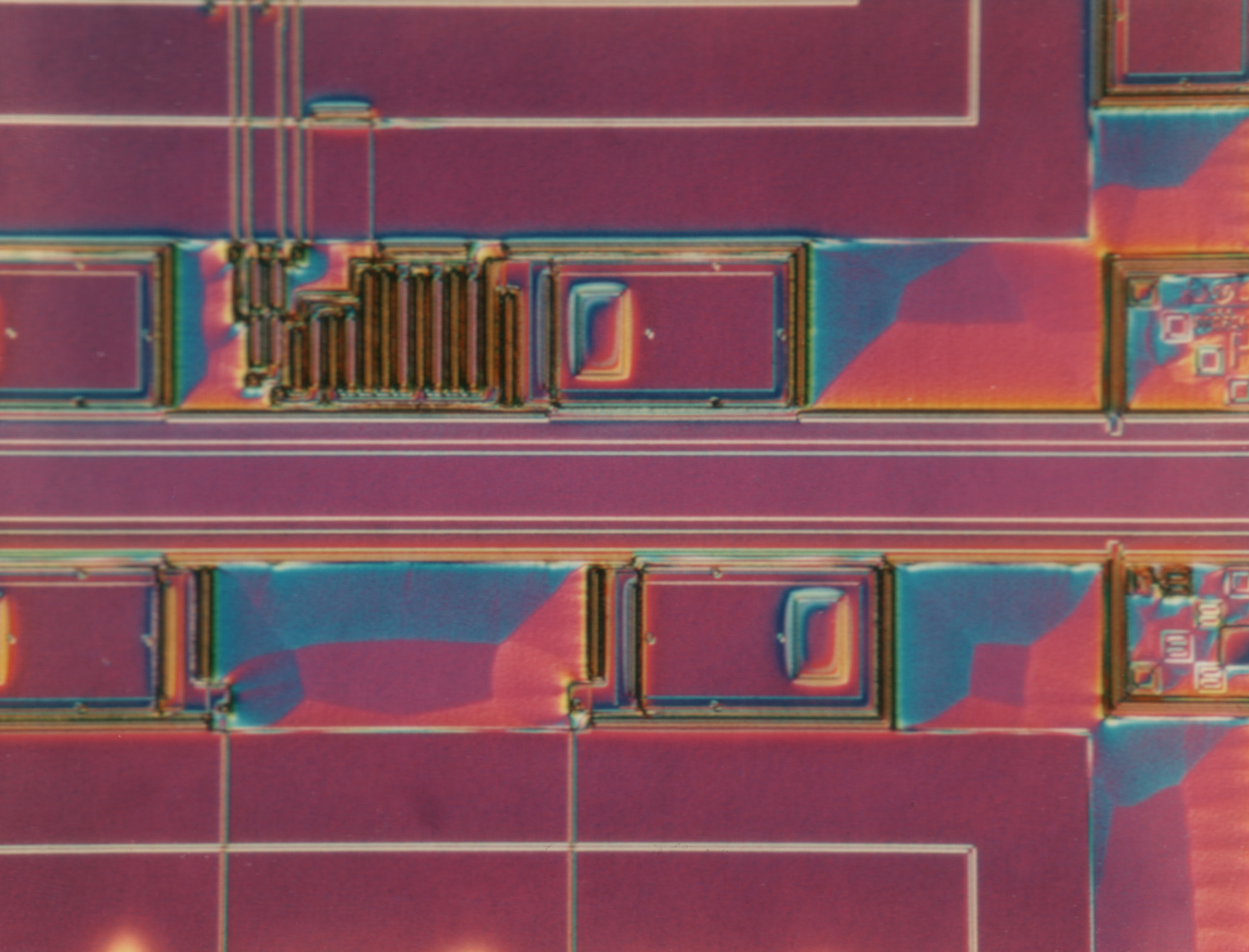 The subject of this image is a silicon integrated circuit wafer in the region between two circuit die. The five pink and blue iregularly-shaped rectangles in the image are areas of photoresist that should have been fully developed and rinsed away (purple) but in fact was not - because of a defect in processing. The height of this photoresist is highlighted by the Nomarski Differential Interference Contrast microscopy (DIC). From knowledge of other geometries of the subject, it can be determined that the purple centers of the iregularly-shaped rectangles are in fact lower than the edges.